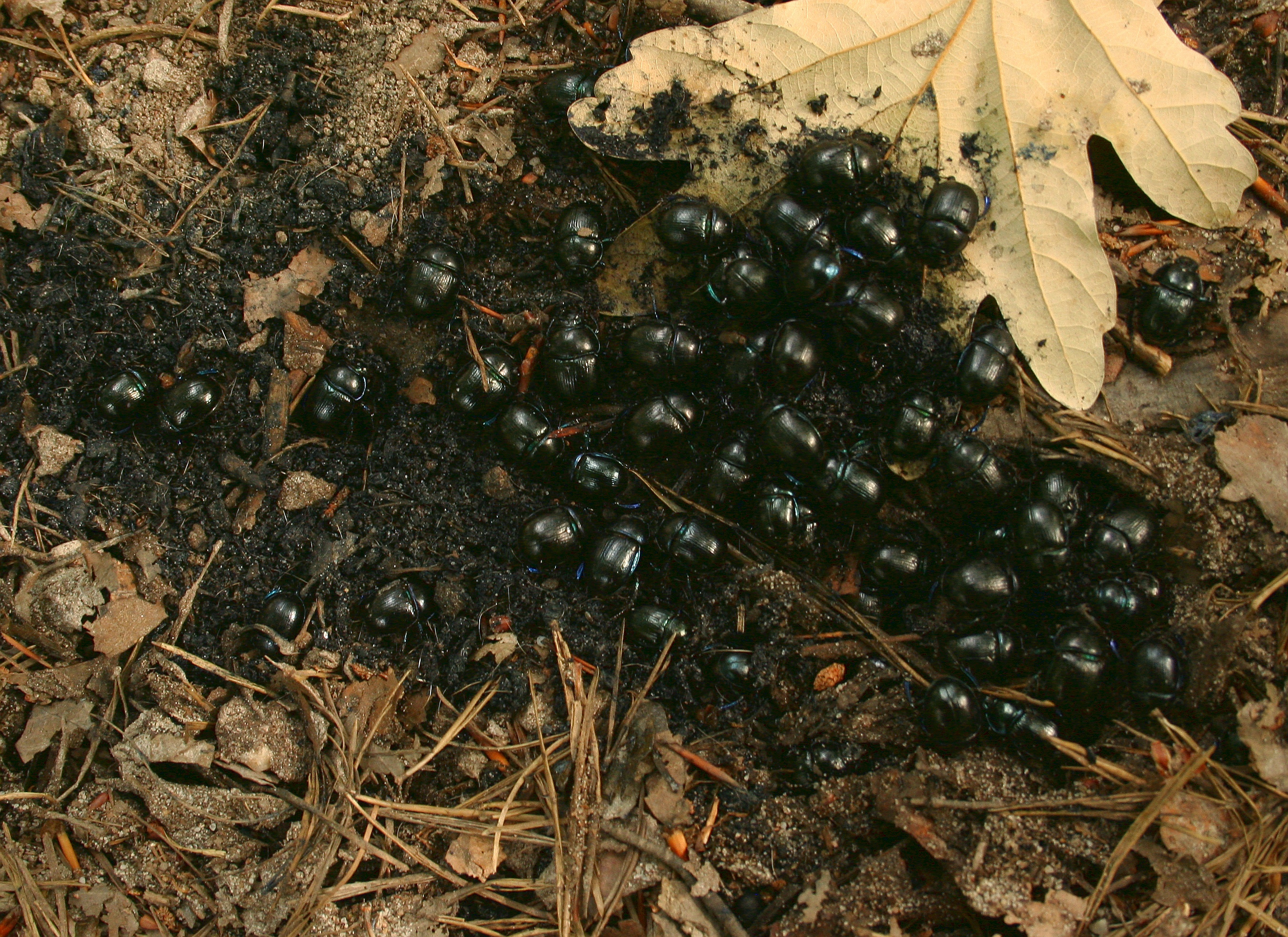 Anoplotrupes stercorosus